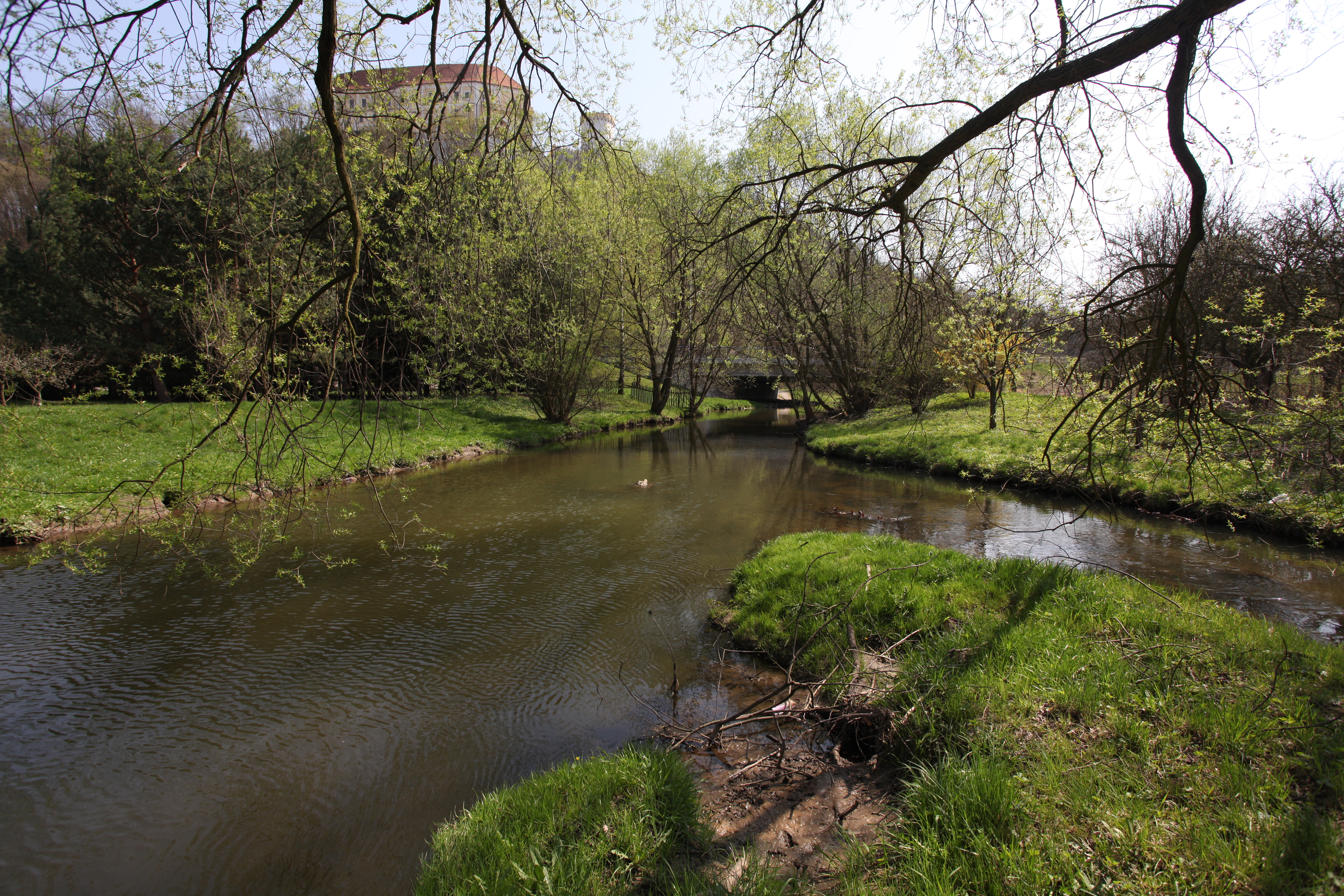 River Svitava (left) meets channel originating in Křetínka stream near center of Letovice